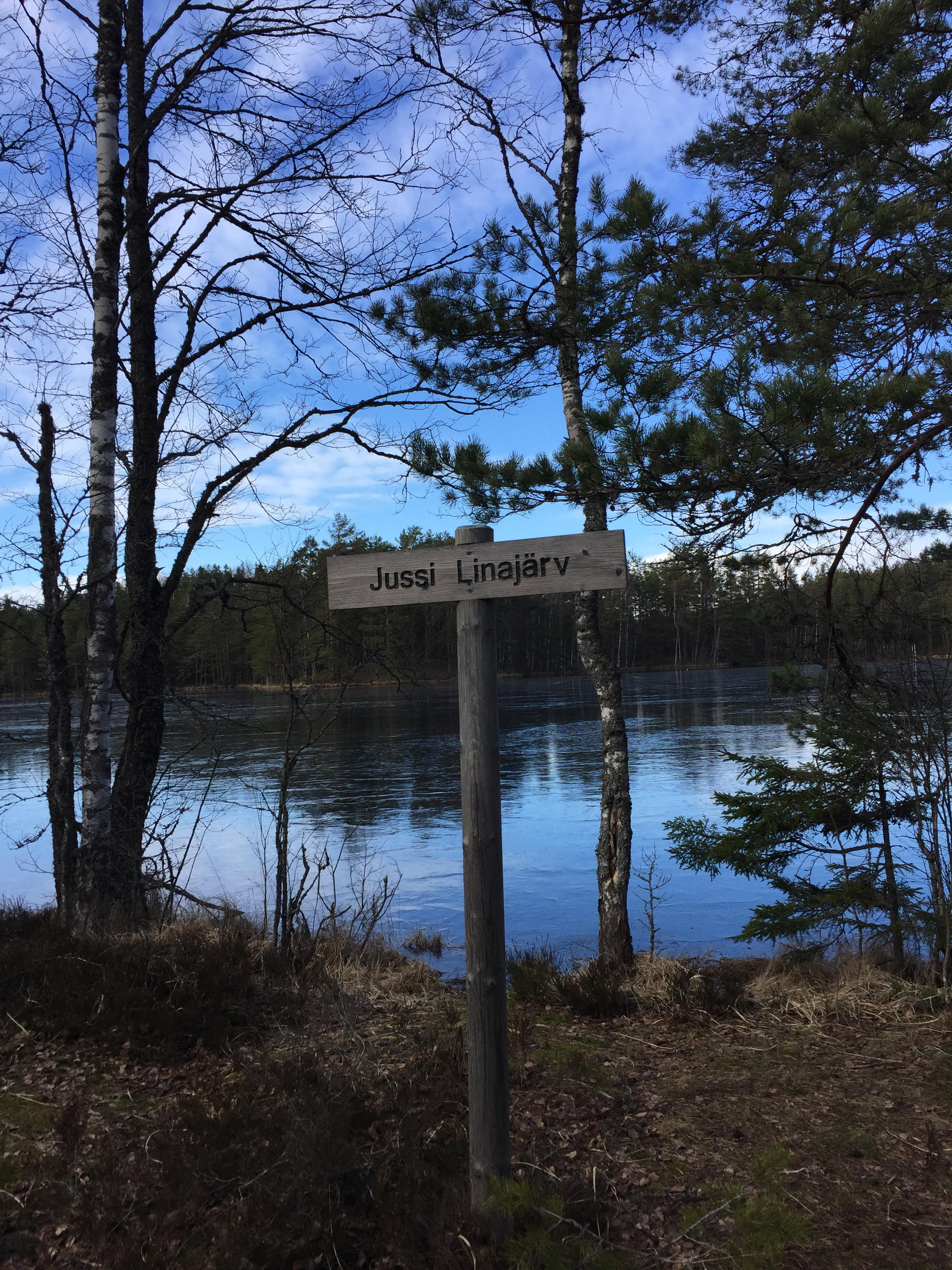 Picture of lake